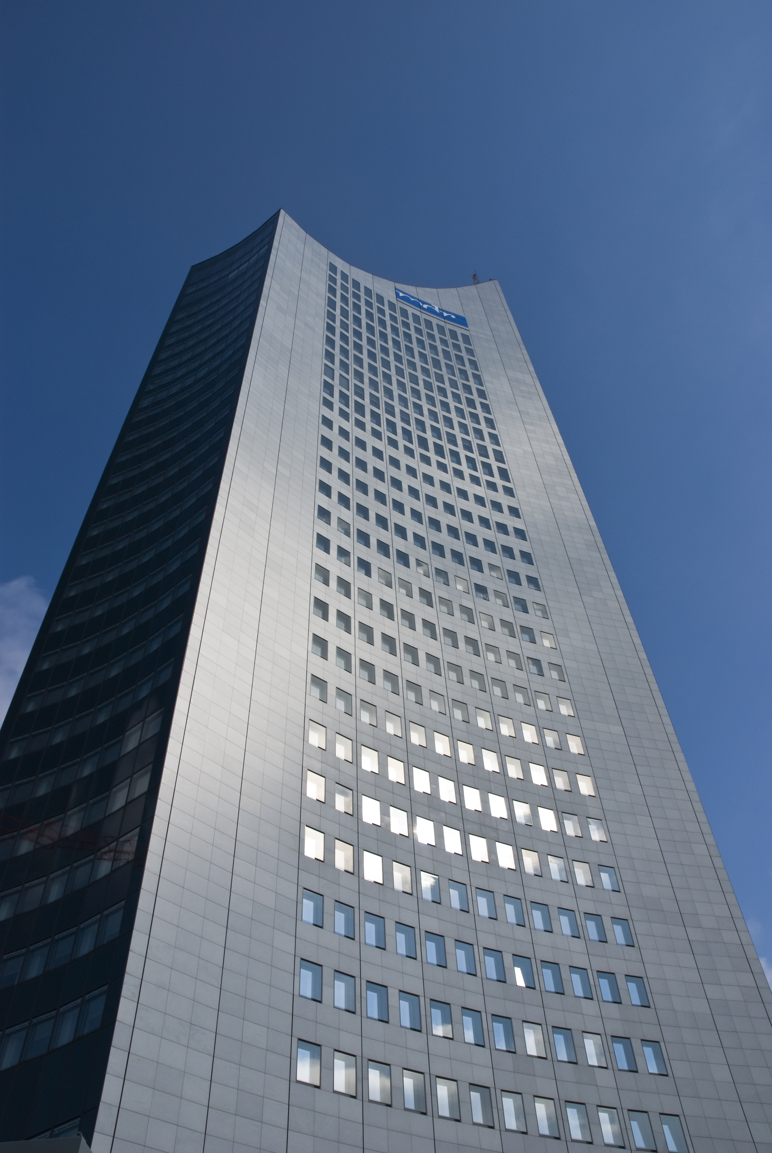 City-Hochhaus Leipzig